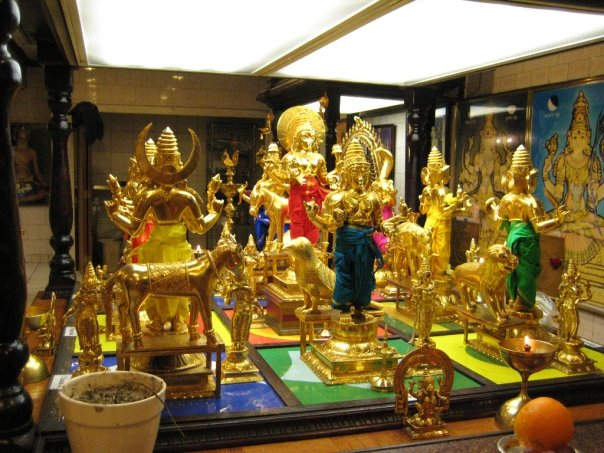 god planets